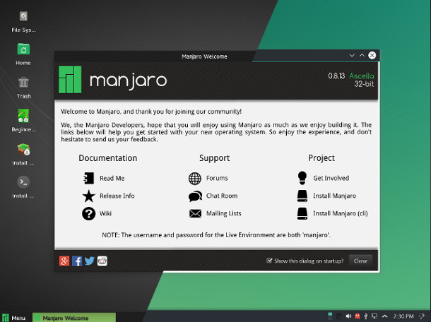 A Screenshot from default installation of Manjaro Linux 0.8.13, taken from Manjaro homepage at manjaro.github.io